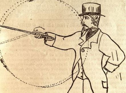 Image from Colonel Thomas Monstery's chapter on self-defense with a cane